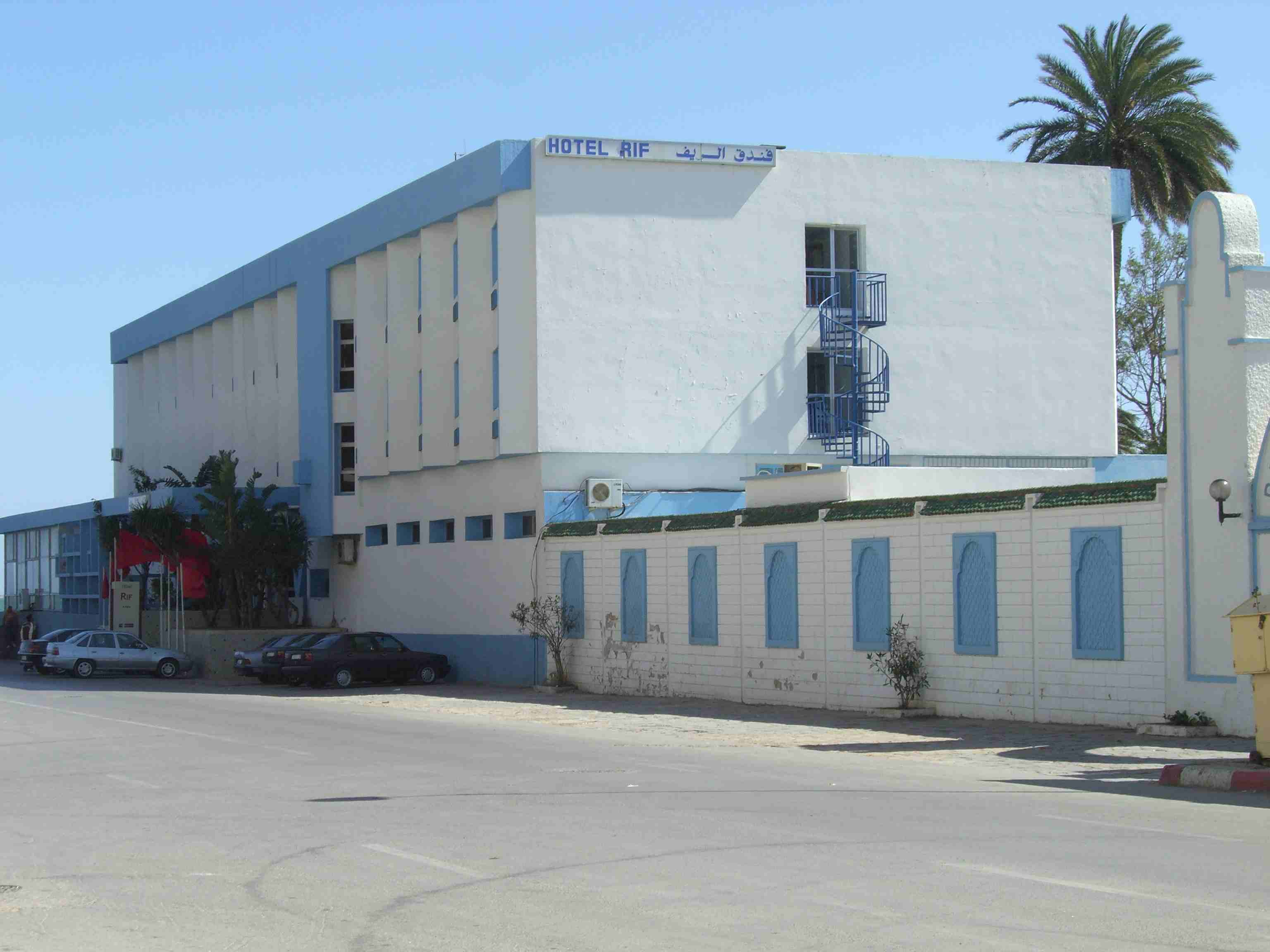 Hotel RIF in Nador, Morocco, demolished 2008